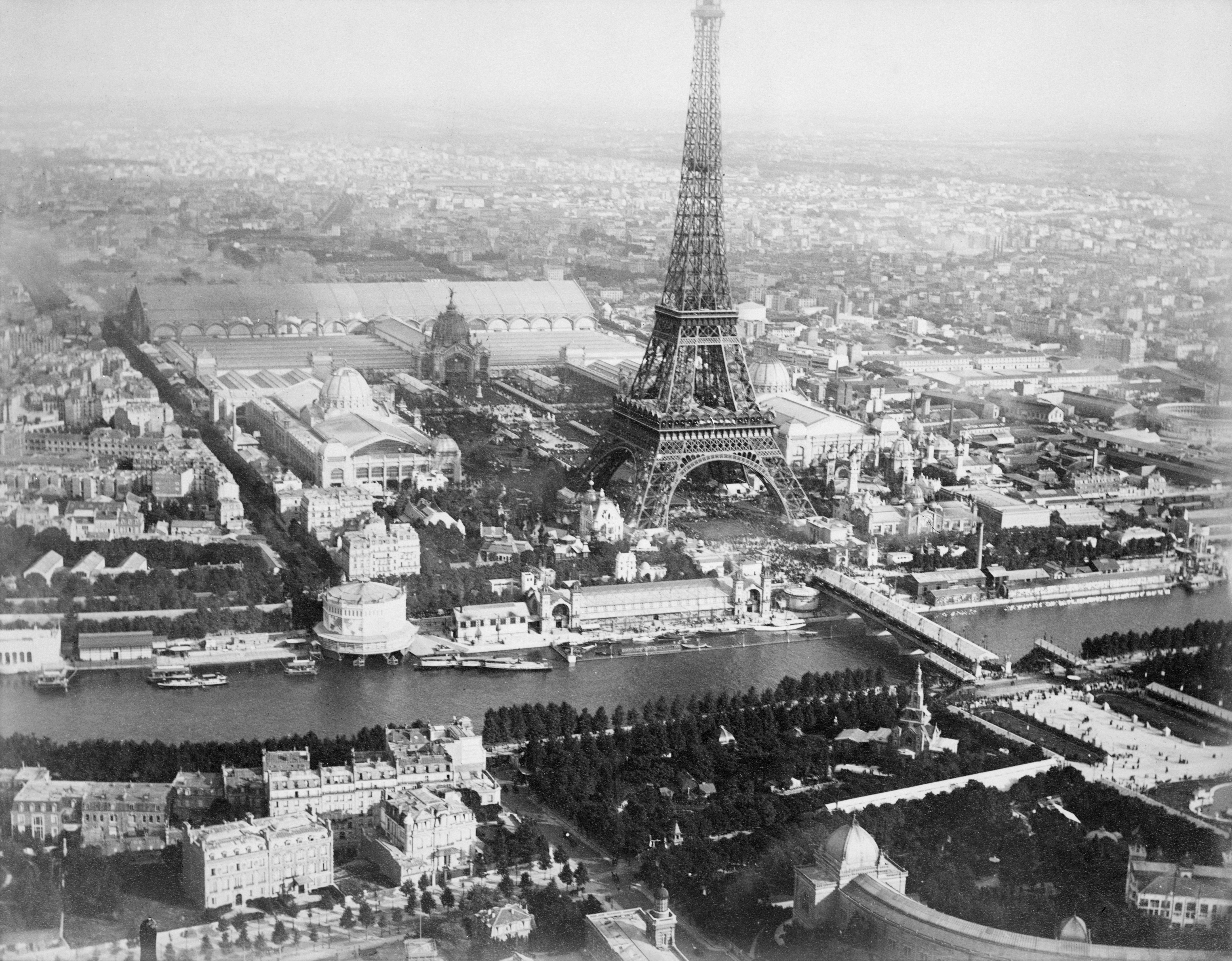 Aerial view of Paris, France, from balloon, showing the Eiffel Tower at right center